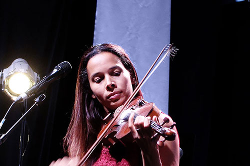 Rhiannon Giddens at Aarhus Festival 2015